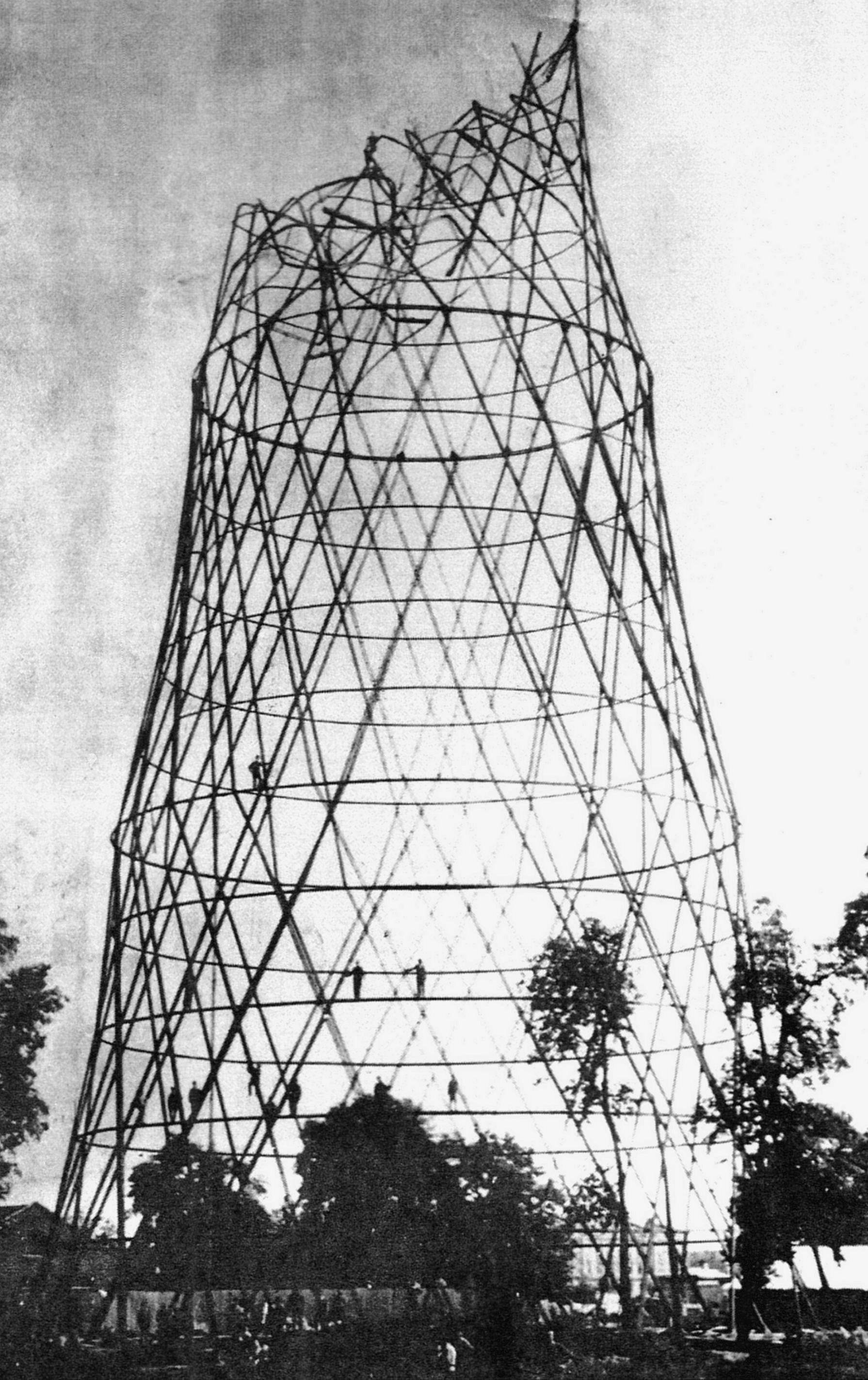 The Shukhov Radio Tower in Moscow after the collapse that occurred during the construction of the tower 29 June 1921. “29 June 1921. During the lifting of the fourth section the third section broke. The fourth section fell and damaged the second and the first ones at seven in the afternoon.” —From the diary of Vladimir Shukhov.